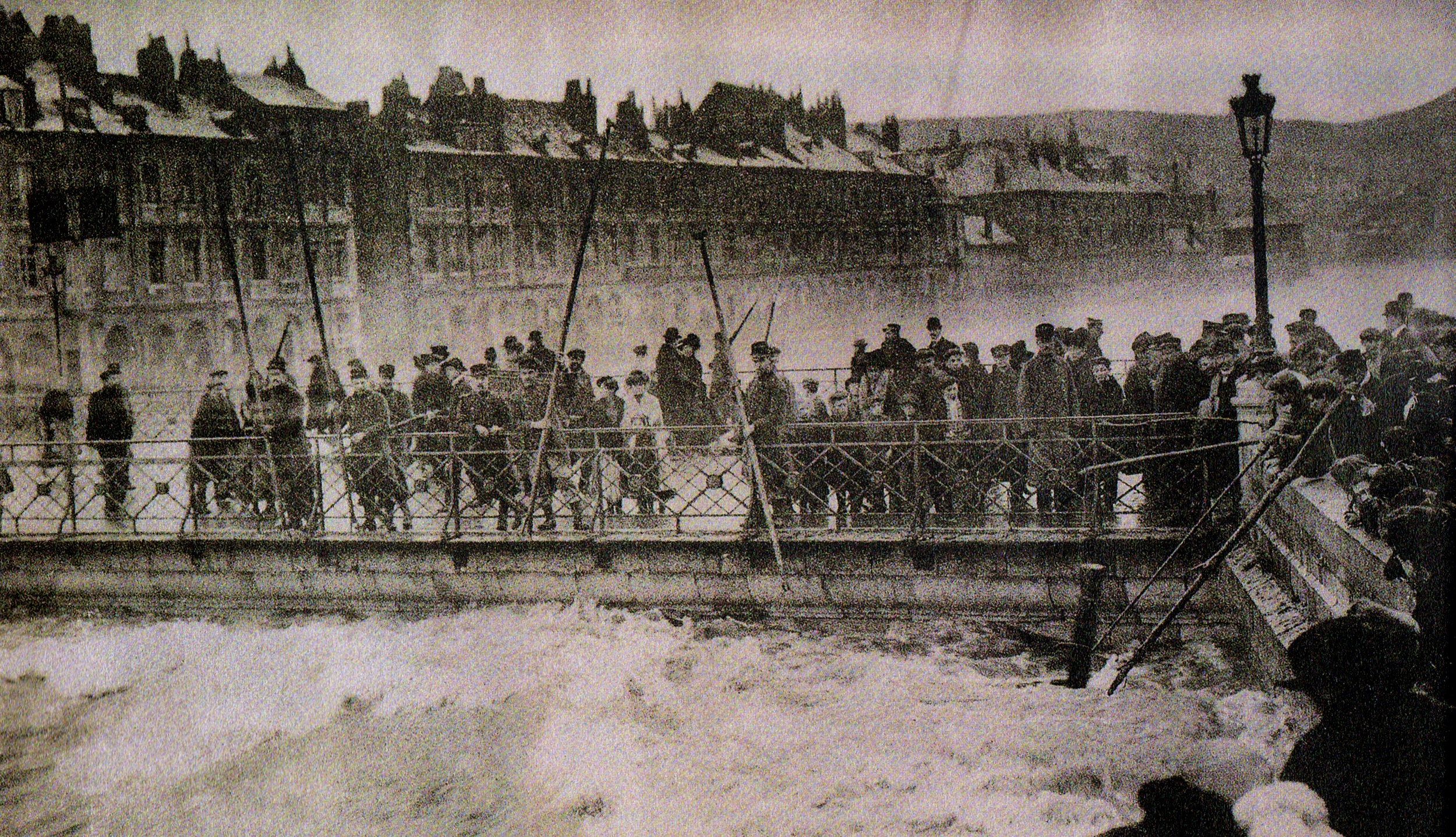 Flood of Doubs river in 1910, in the city of Besançon (Doubs, France)